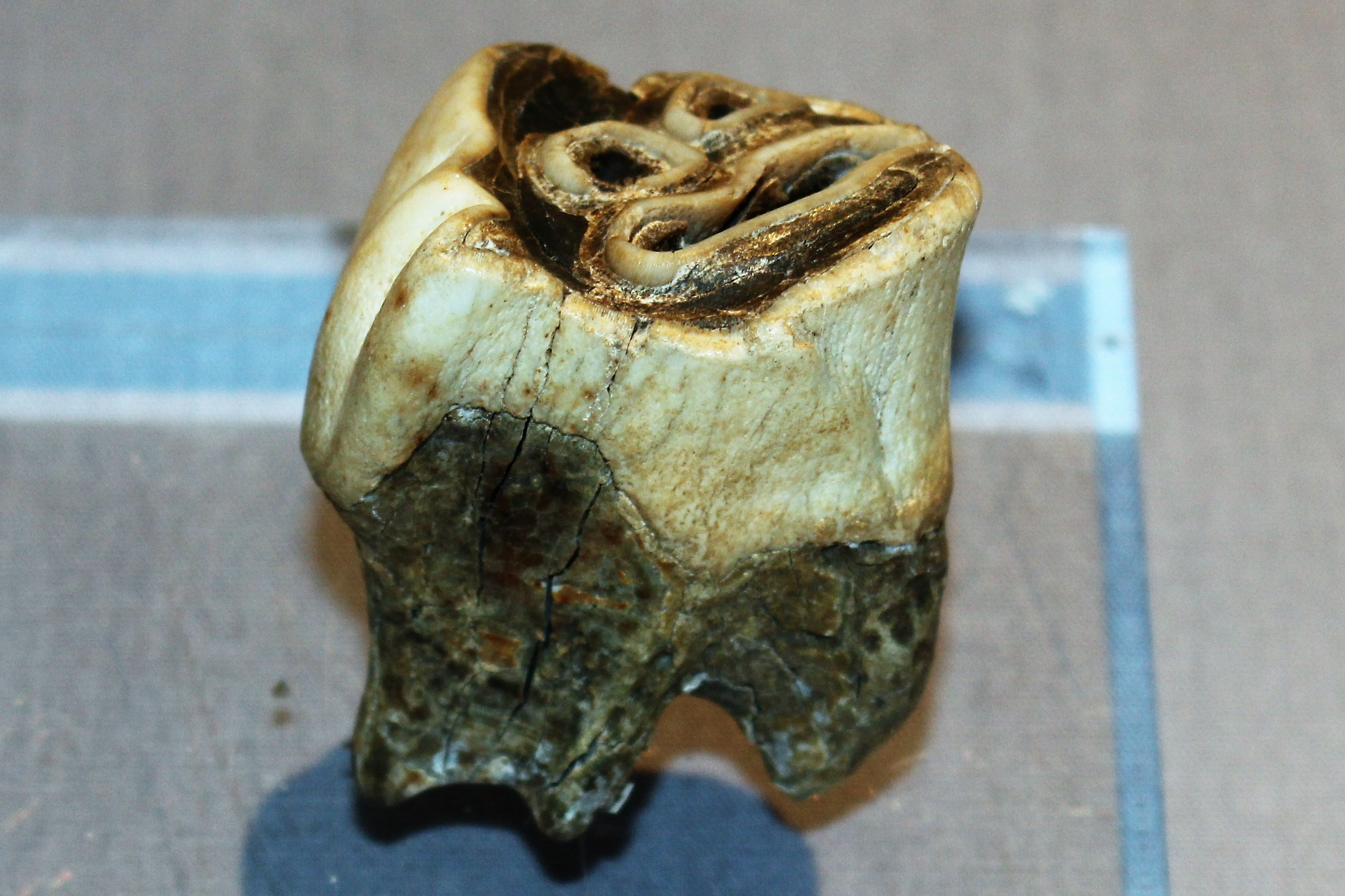 Fossilized woolly rhinoceros (Coelodonta antiquitatis) tooth in the Rotunda Museum, Scarborough, England.